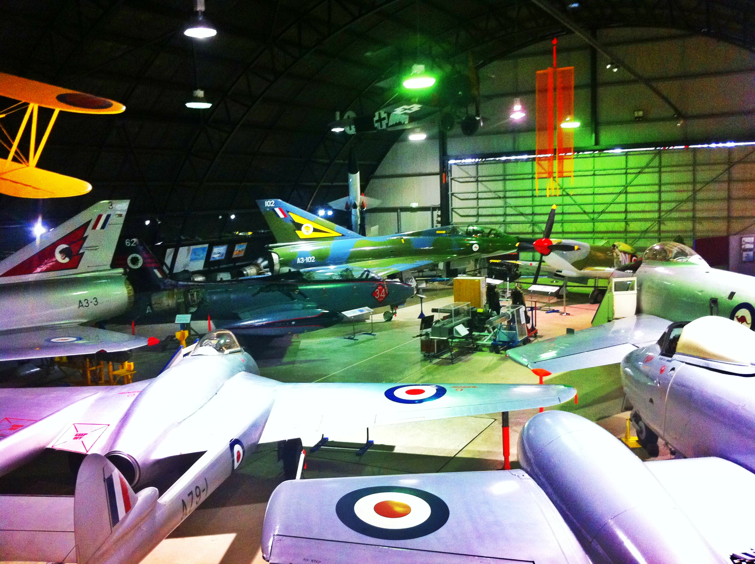 The Fighter-World museum at RAAF base Williamtown/Newcastle Airport